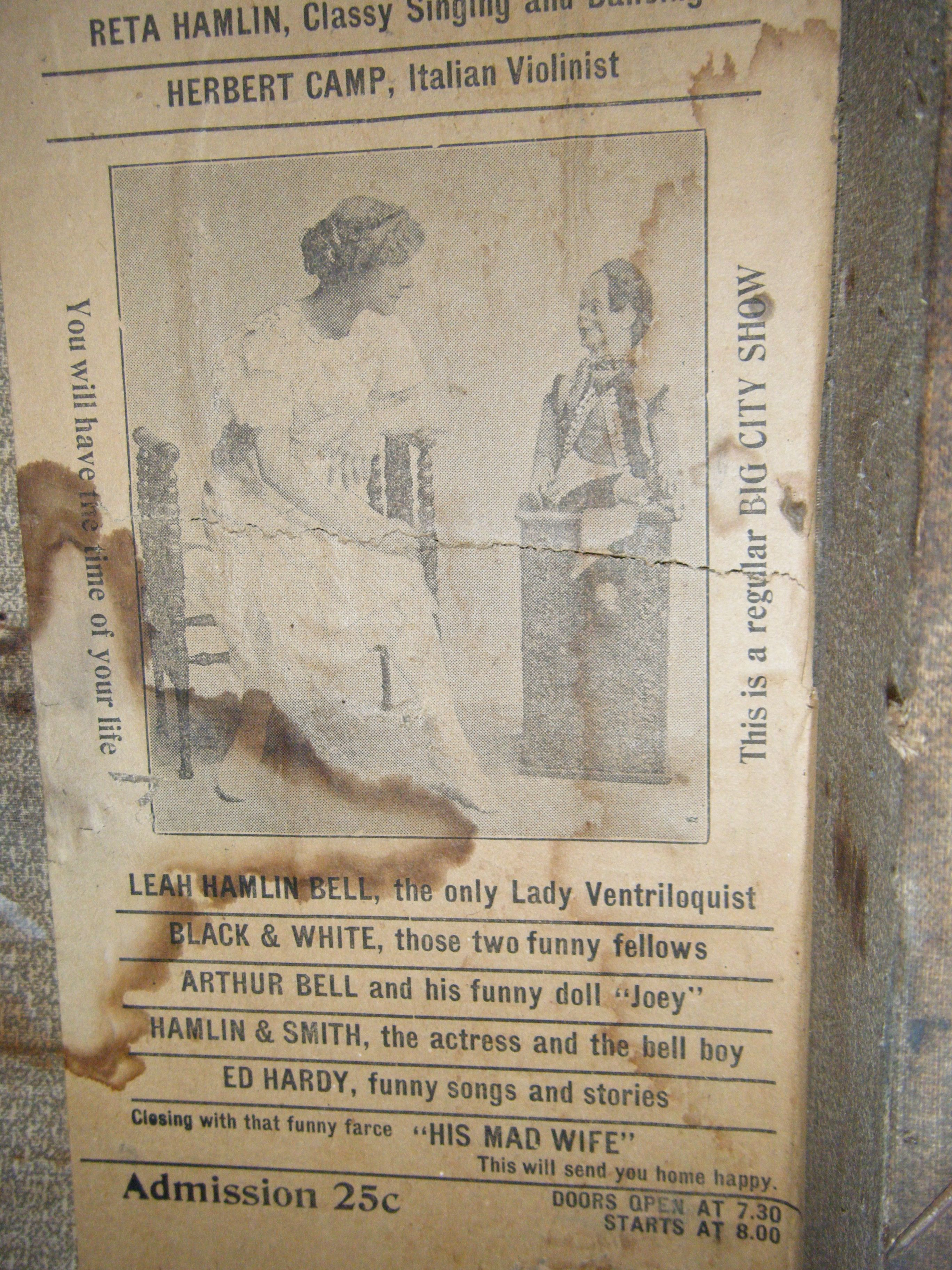 Leah Bell handbill. Photo of handbill that was found glued to inside a truck lid. Truck was recently discovered and returned to the family.